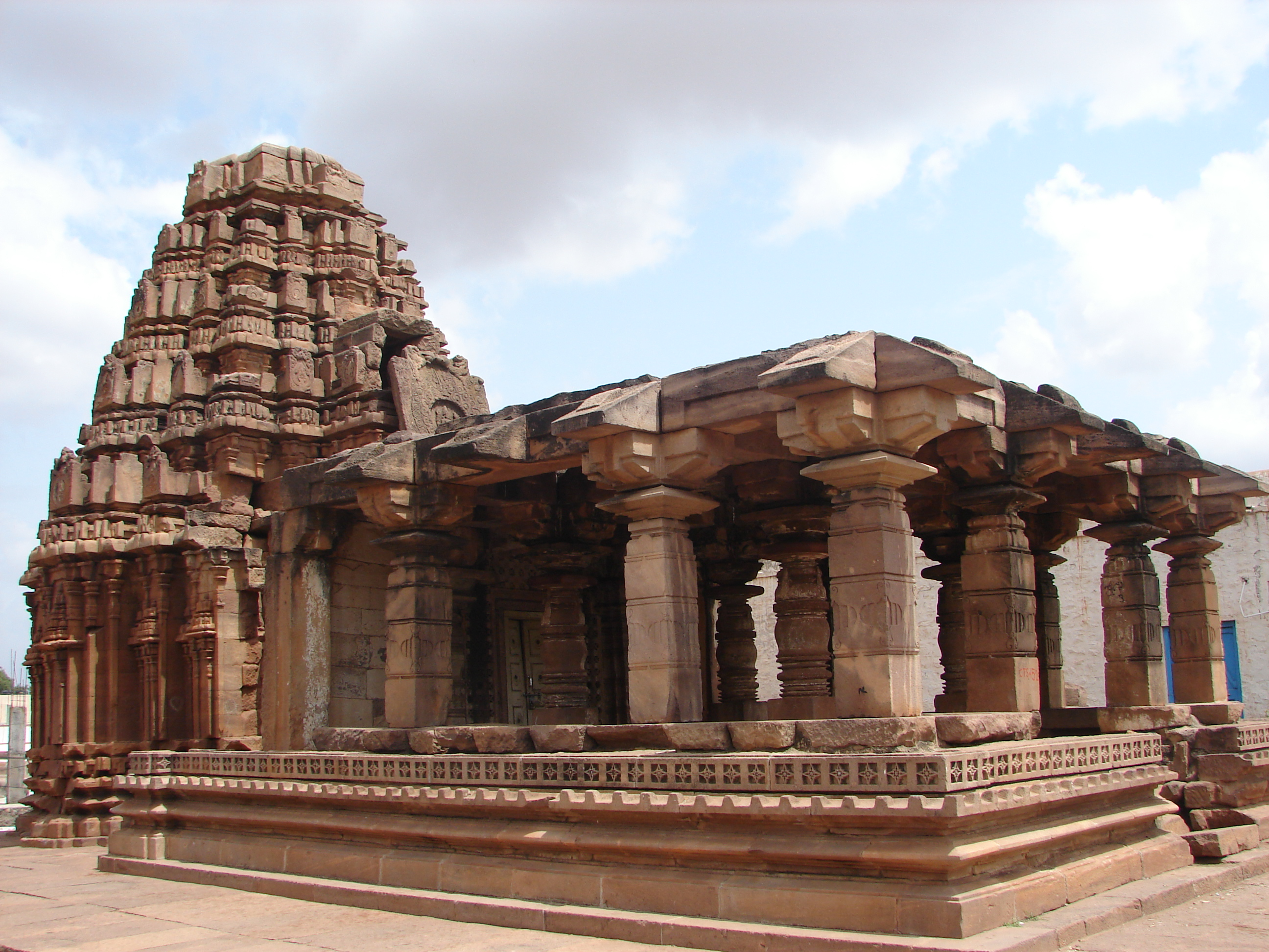 The Yellamma temple at Badami is an example of the early phase of Western Chalukya architectural developments.